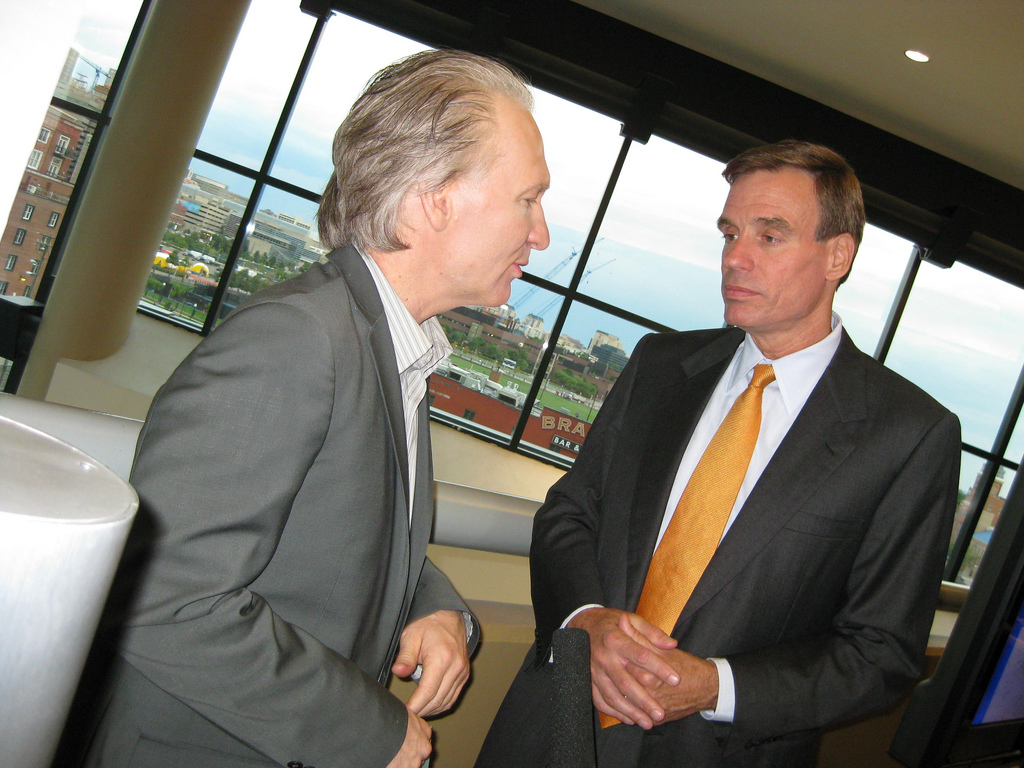 Bill Maher tapes an interview with Mark Warner for "Real Time with Bill Maher" on HBO.